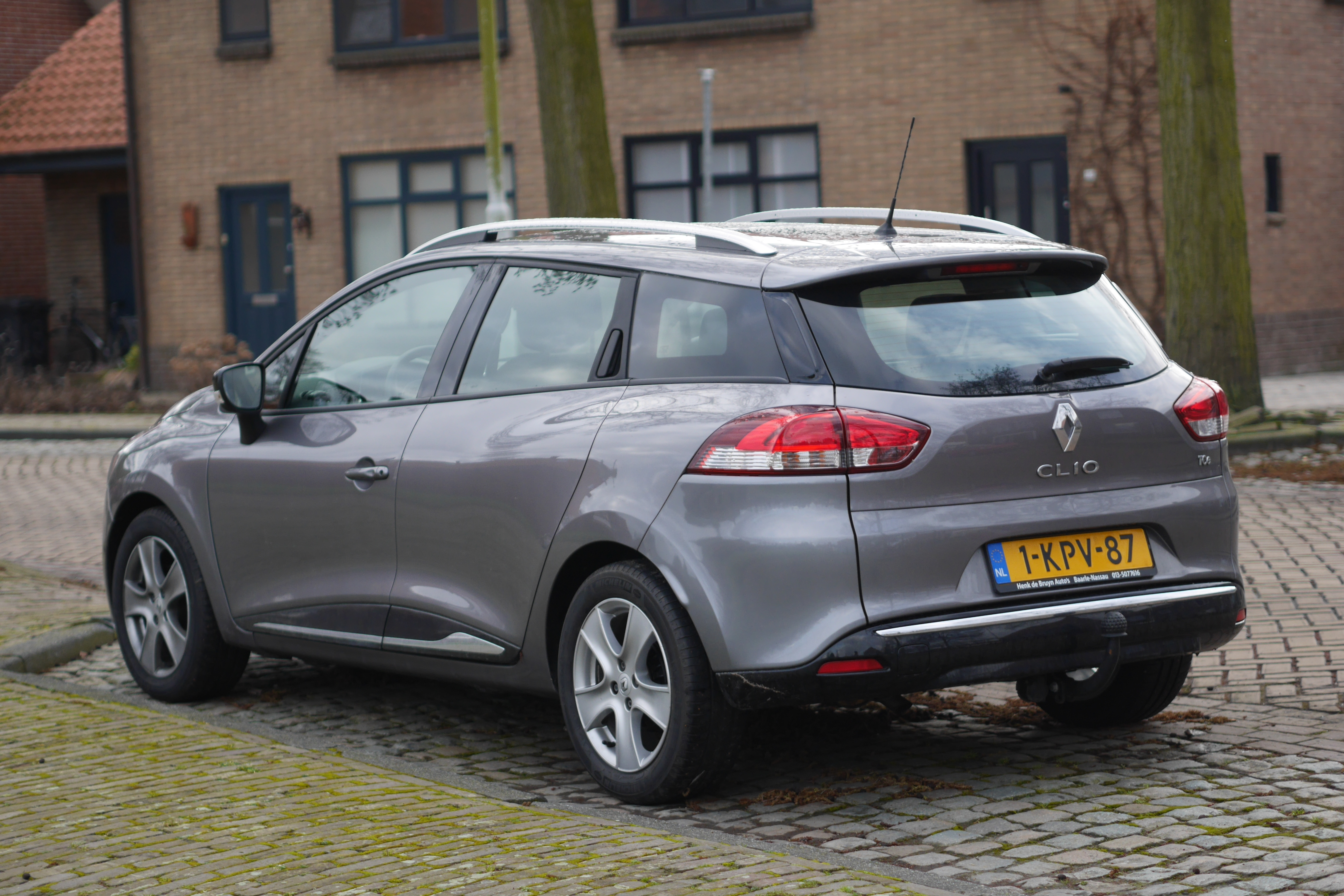 Clio in the Netherlands